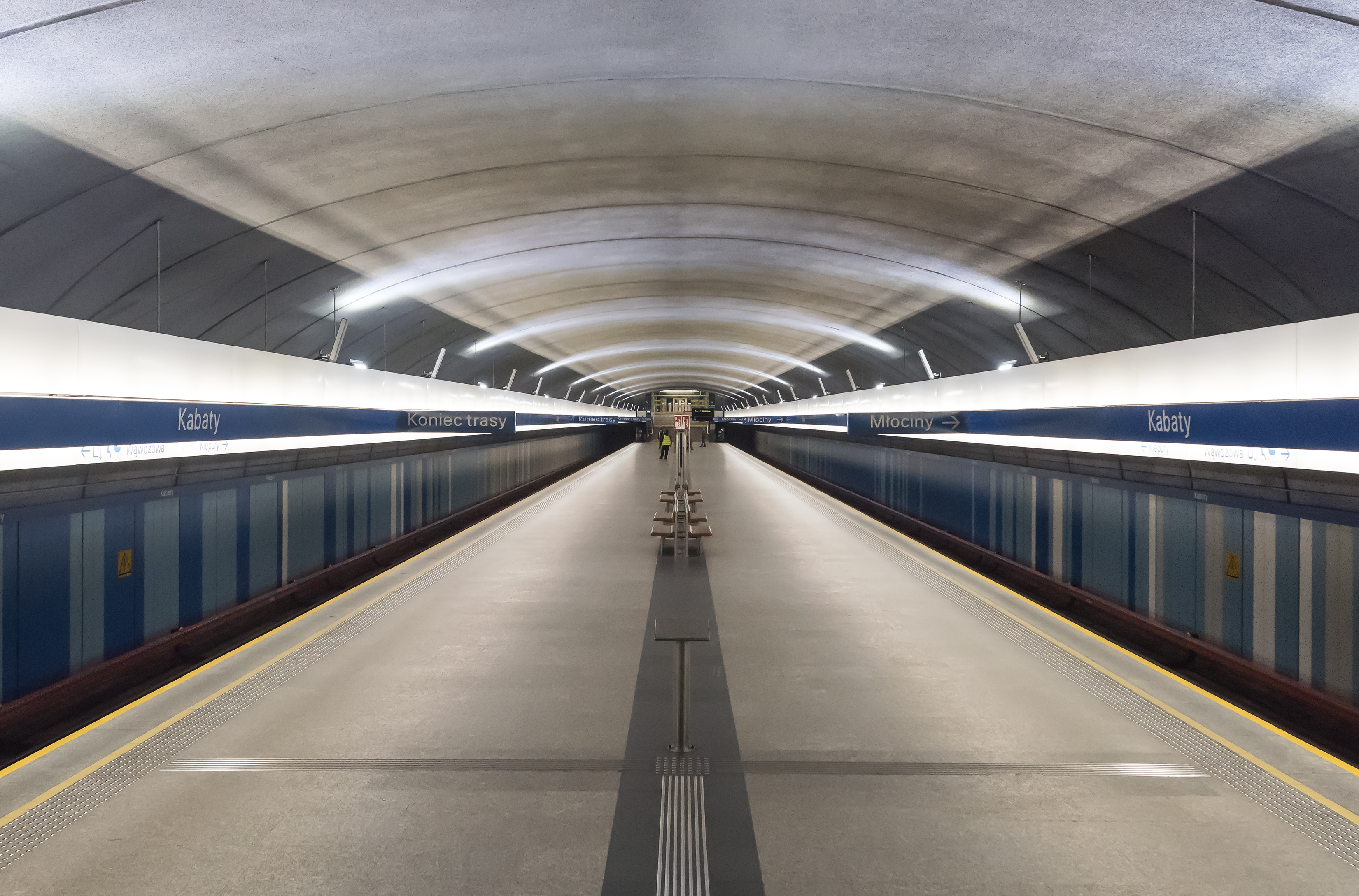 Kabaty metro station in Warsaw